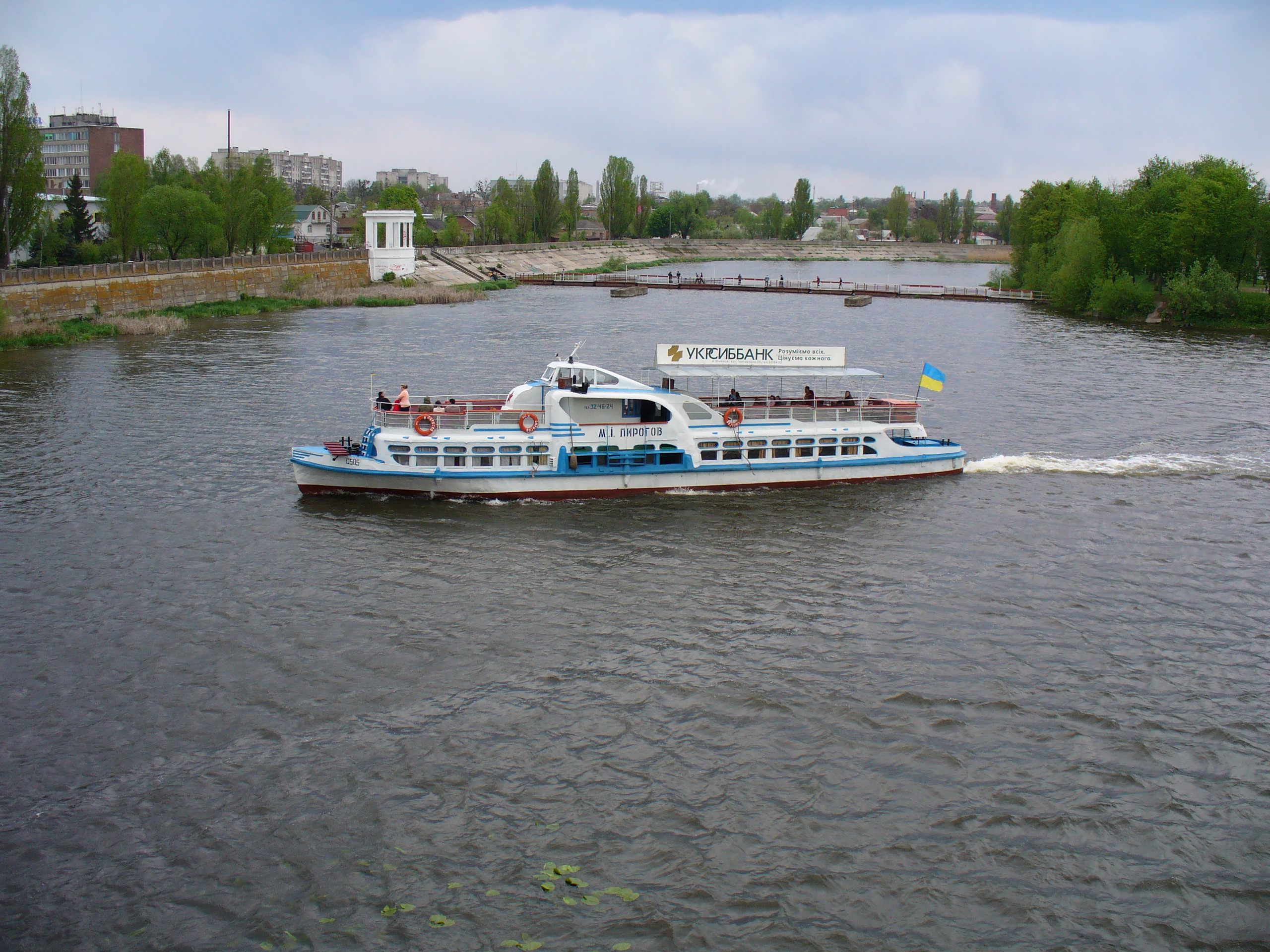 Vinnitsa, Ukraine. View from a bridge to the Southern Bug river. Old passenger river ship "N.I.Pirogov" (Type Moskvich ship).